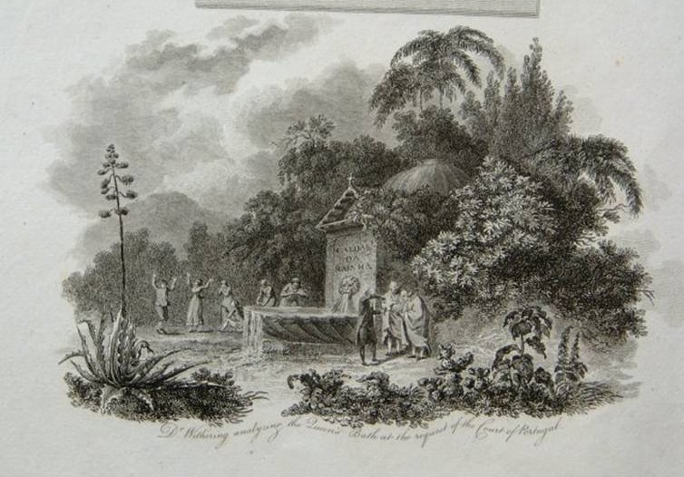 A photograph I took of an original engraving plate from Robert Thornton’s The Temple of Flora, published in London, 1799–1807. It shows William Withering at the thermal springs of Caldas da Rainha in Portugal. The legend reads Dr Withering analyzing the Queen’s Bath at the request of the Court of Portugal